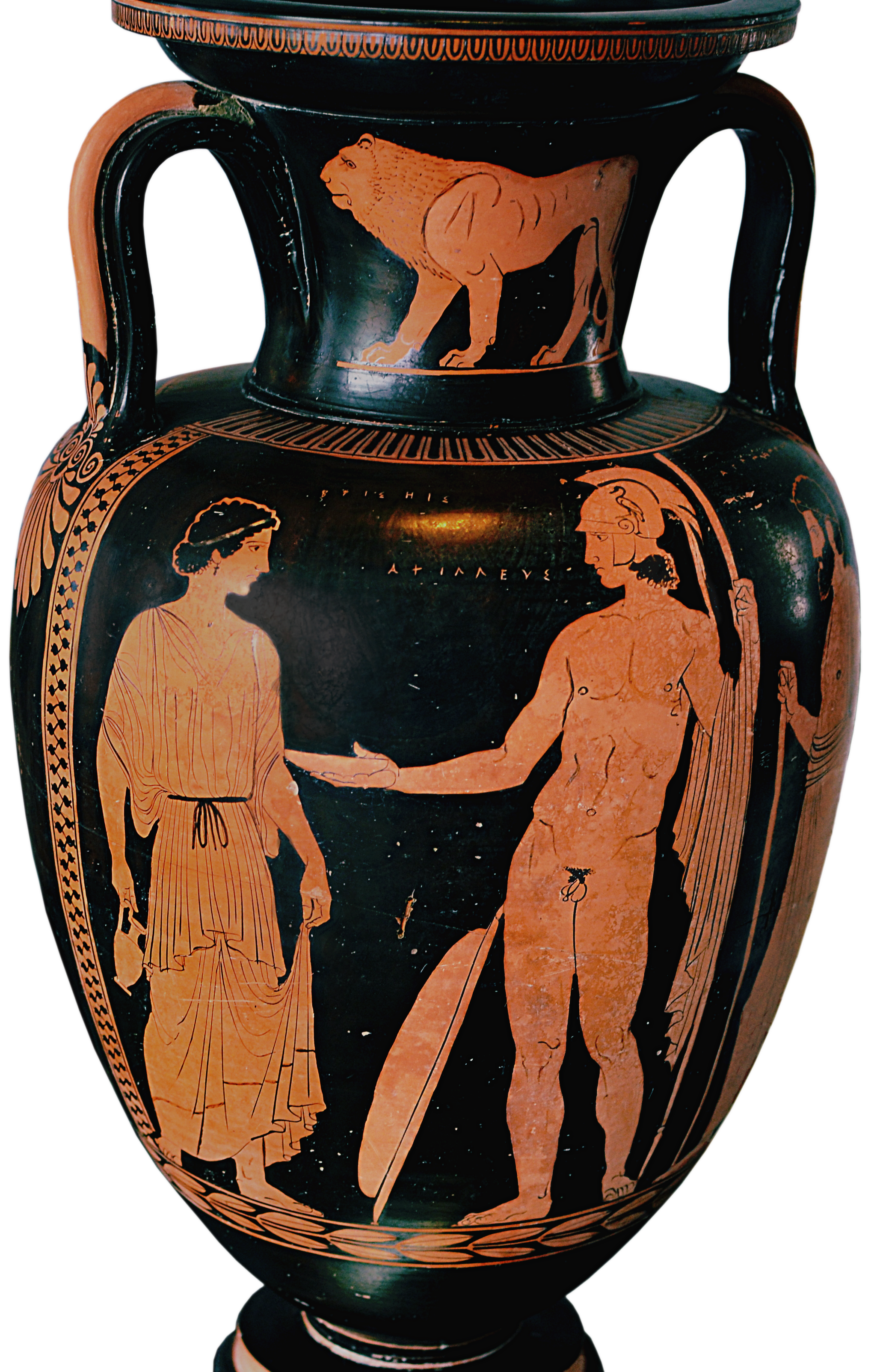 Apulian Red-Figure Amphora by the Painter of the Berlin Dancing Girl ca. 430-410 BCE depicting Achilles and Briseis. The original photograph was taken and uploaded to Wikimedia Commons by AlexanderVanLoon 30 September 2013, 14:02:18 with the following description: Red-figure amphora attributed to the Painter of the Berlin Dancing Girl. The frontal scene shows Briseis on the left with an oinochoe in her right hand. She is given a phiale by Achilles, who is on the right with a Corinthian helmet, spear and round shield. Agamemnon watches the scene from behind Achilles, with a stick and a laurel wreath. The names of the characters are engraved on the vase. Inventory number 571 in the Museo Provinciale Sigismondo Castromediano in Lecce, Italy. This version of the image has been slightly cropped, digitally edited to reduce glare and changed the background to solid white.